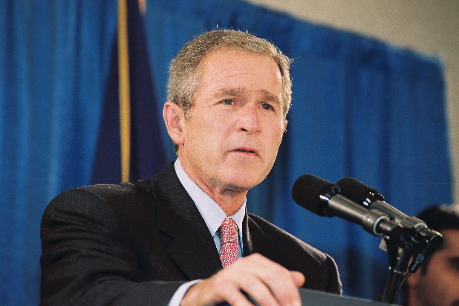 Washington, DC, October 1, 2001 -- President Bush addresses FEMA employees and outlines the path that the United States will follow in light of the September 11 terrorist attacks. Photo by Greg Schaler/ FEMA News Photo